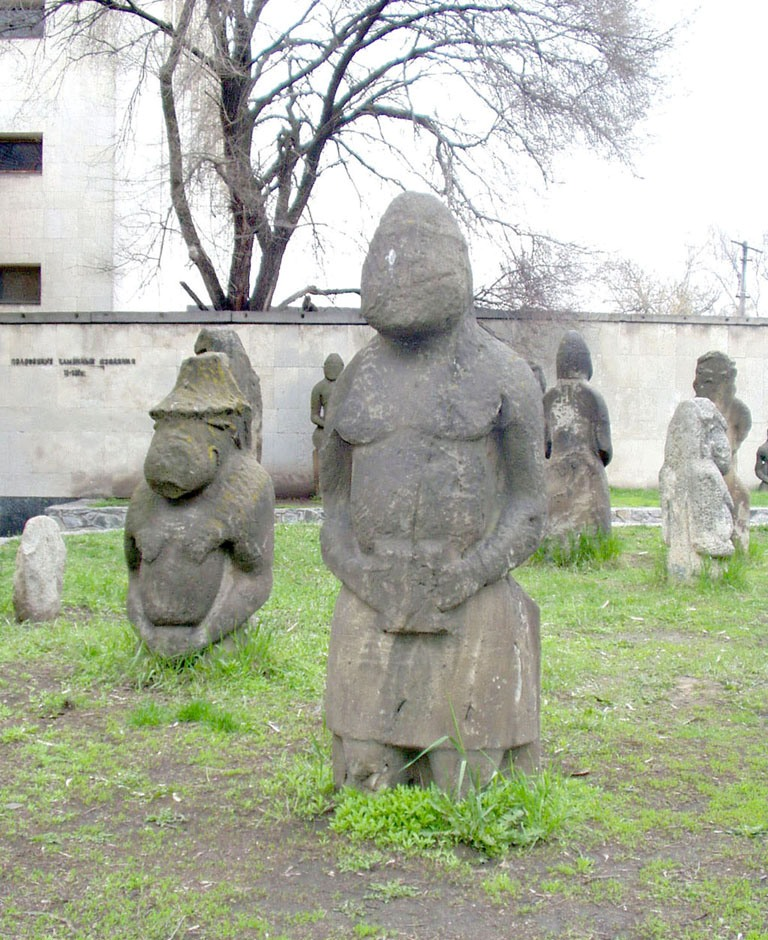 Museum of Kipchak steppe art in Dnipro (city). Photo courtesy Petro Vlasenko Watermark cropped by Ali'i on 15:21, 5 June 2008 (UTC)